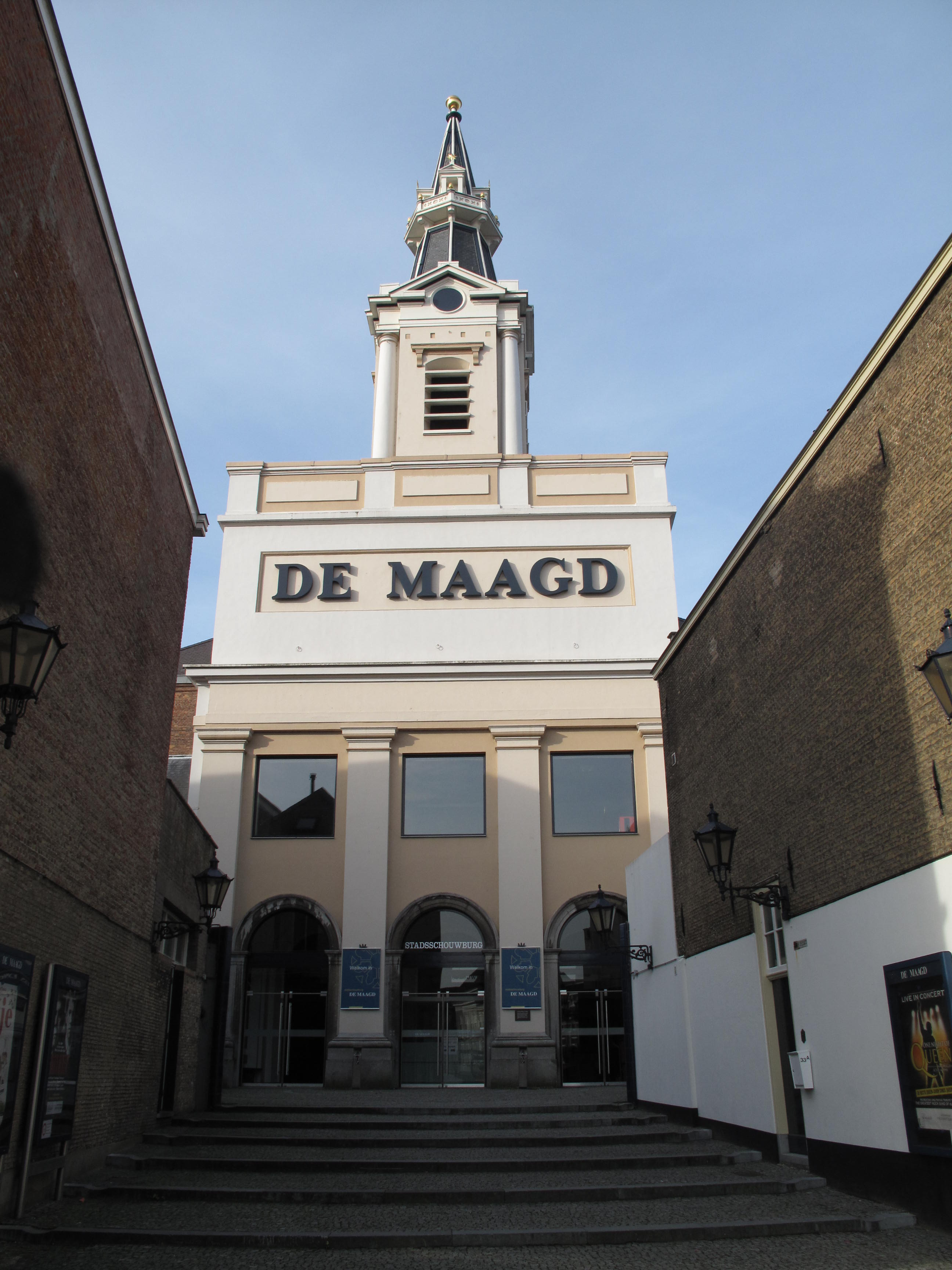 Bergen op Zoom, theater: de Maagd